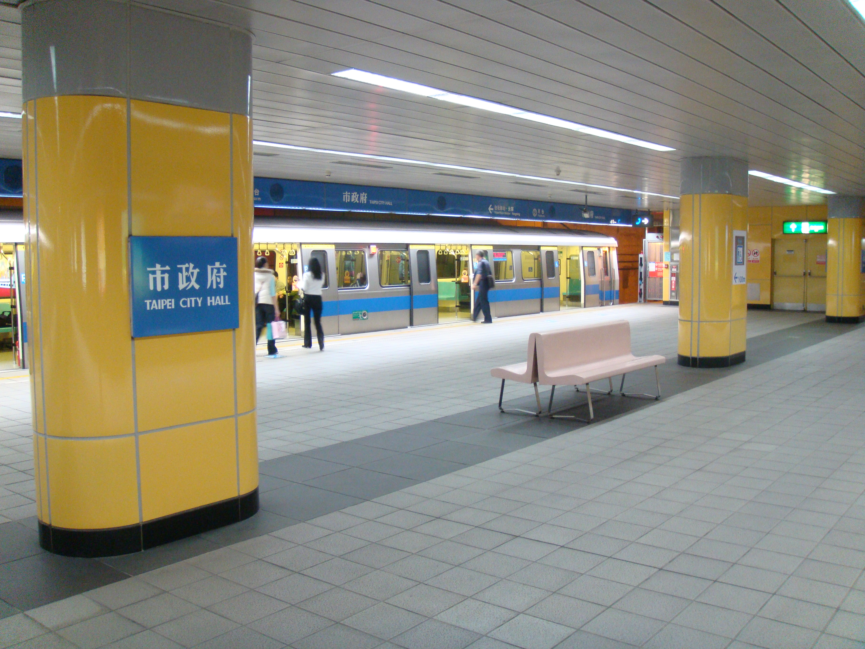 Platform 2, Taipei City Hall Station (Side platform view), Nangang Line, Taipei Metro.